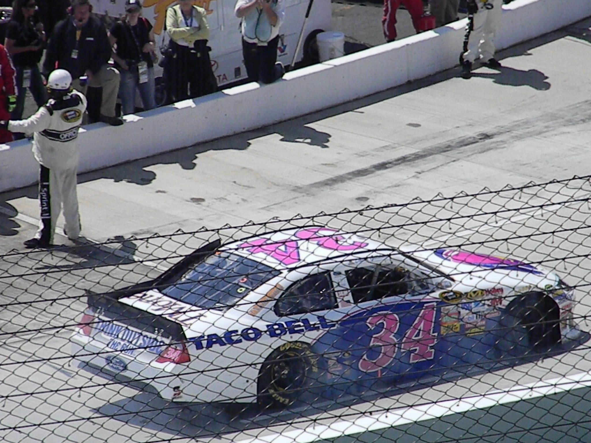 David Gilliland's No. 34 Ford on pit road at Martinsville, 2011.